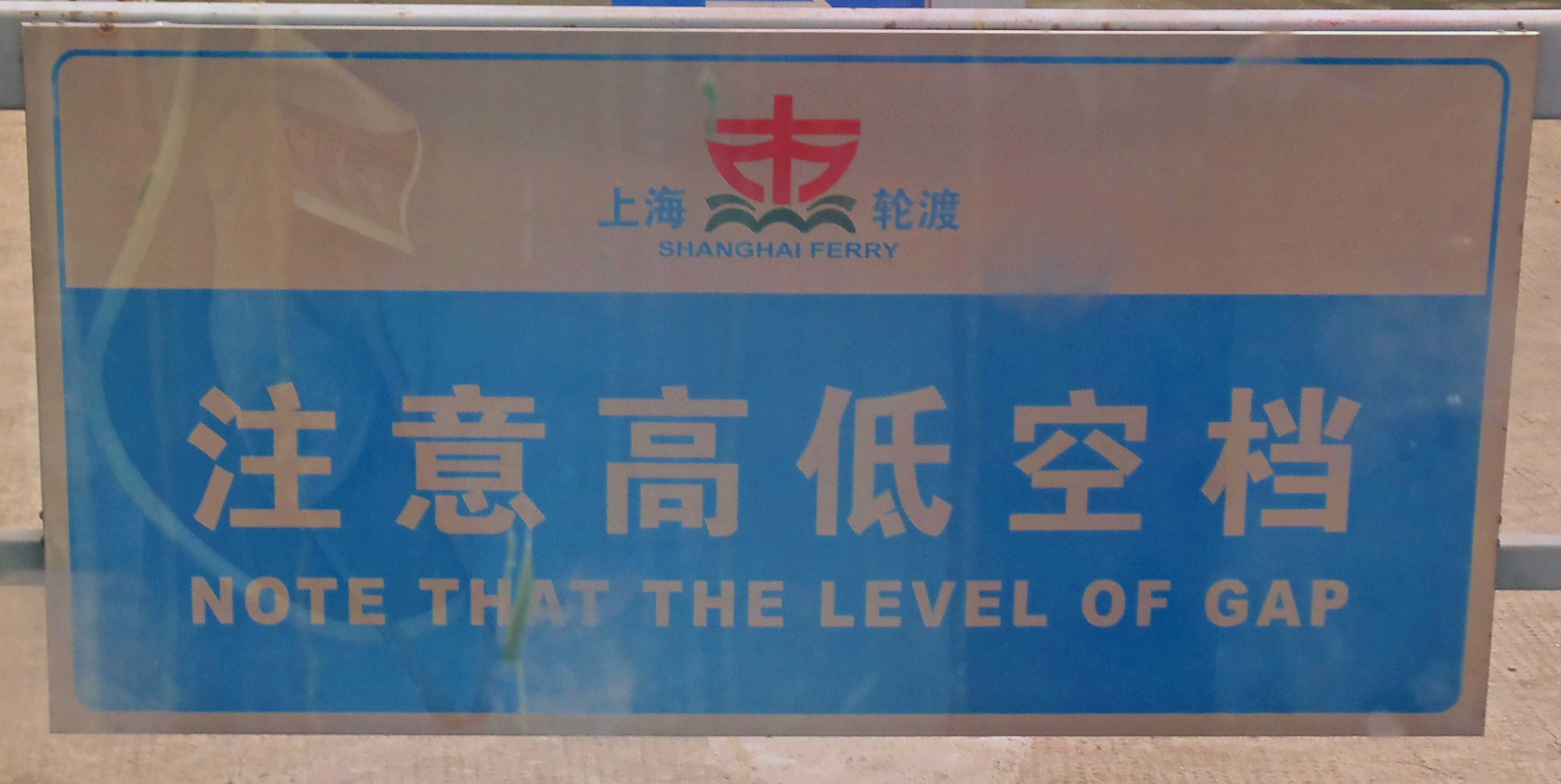 Apparent Chinglish rendering of "Mind the gap" on a Shanghai ferry dock sign